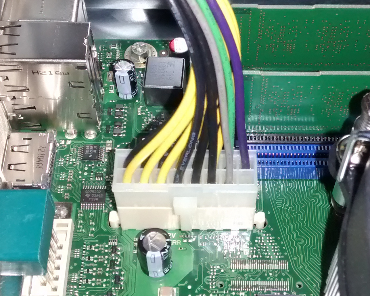 Fujitsu 12 volts single m-b power connector